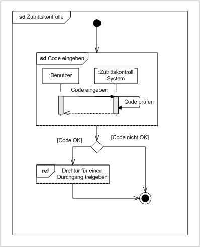 Interaction overview diagram